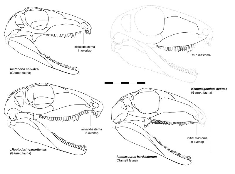 Skull reconstructions of chosen early synapsids with initial or functional diastemata. "Haptodus” garnettensis" (immature size) is combined from best-known specimens, resulting from digital reconstructions. In comparison, Kenomagnathus scottae, gen. et sp. nov., has a deeper orbit and hypothetically deeper jaw. Scale bar equals 5 cm.